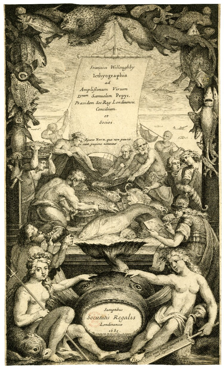 Oxford, 1686 title page, by the French printmaker Paul van Somer, working in London. Title page and illustrations were published in London; text was printed in Oxford. The page illustrates a history of fish by the English naturalist Francis Willoughby. Samuel Pepys, secretary of the admiralty and diarist, is featured on the inscription.